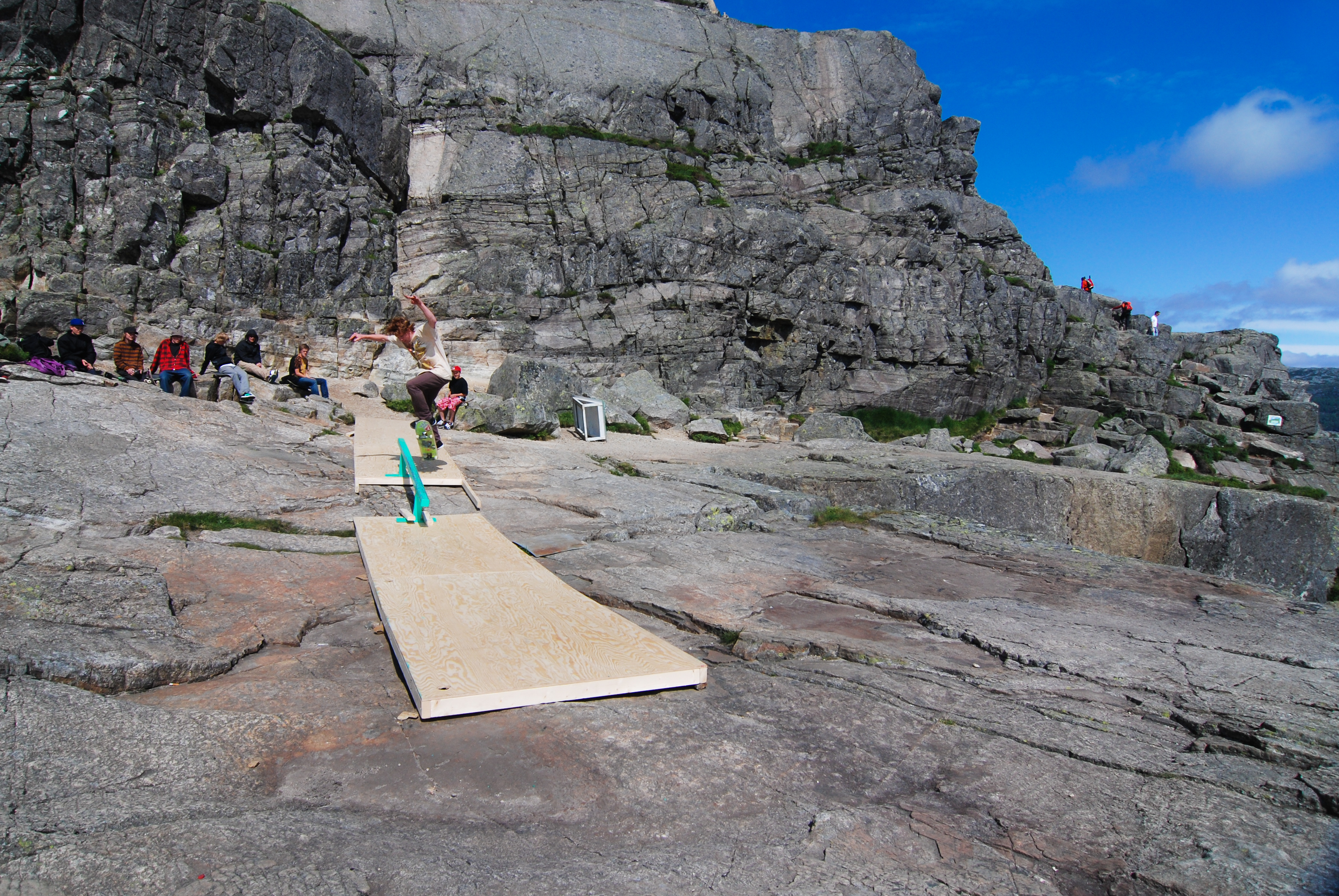 Skateboarding on the Preikestolen in Forsand, Ryfylke, Norway